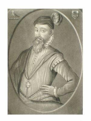 Engraved portrait of Sir John Perrot (c. 1527-1592), Lord Deputy of Ireland